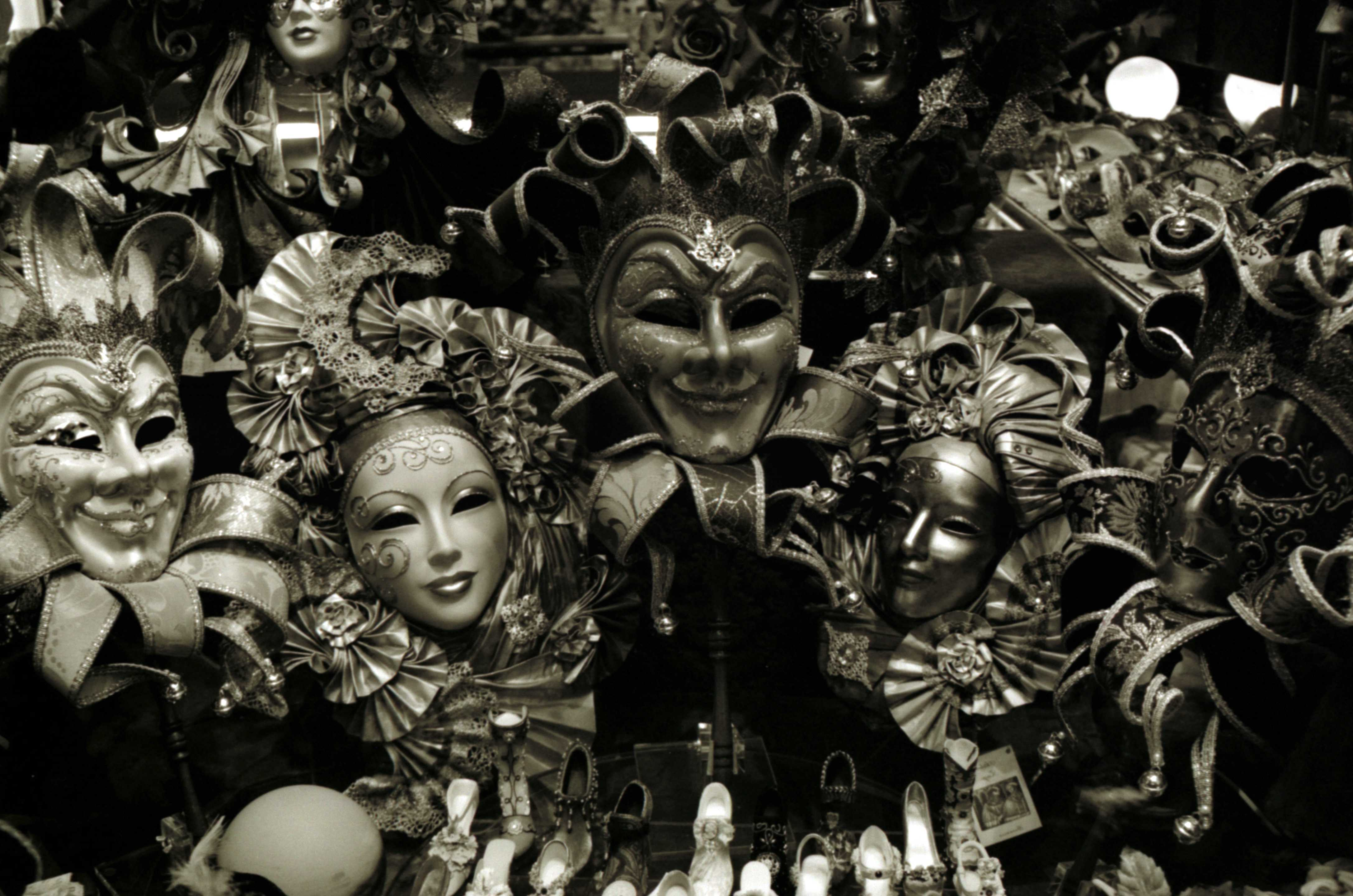 Venice shop window (Spring 2002). Photo by Peter Rimar.